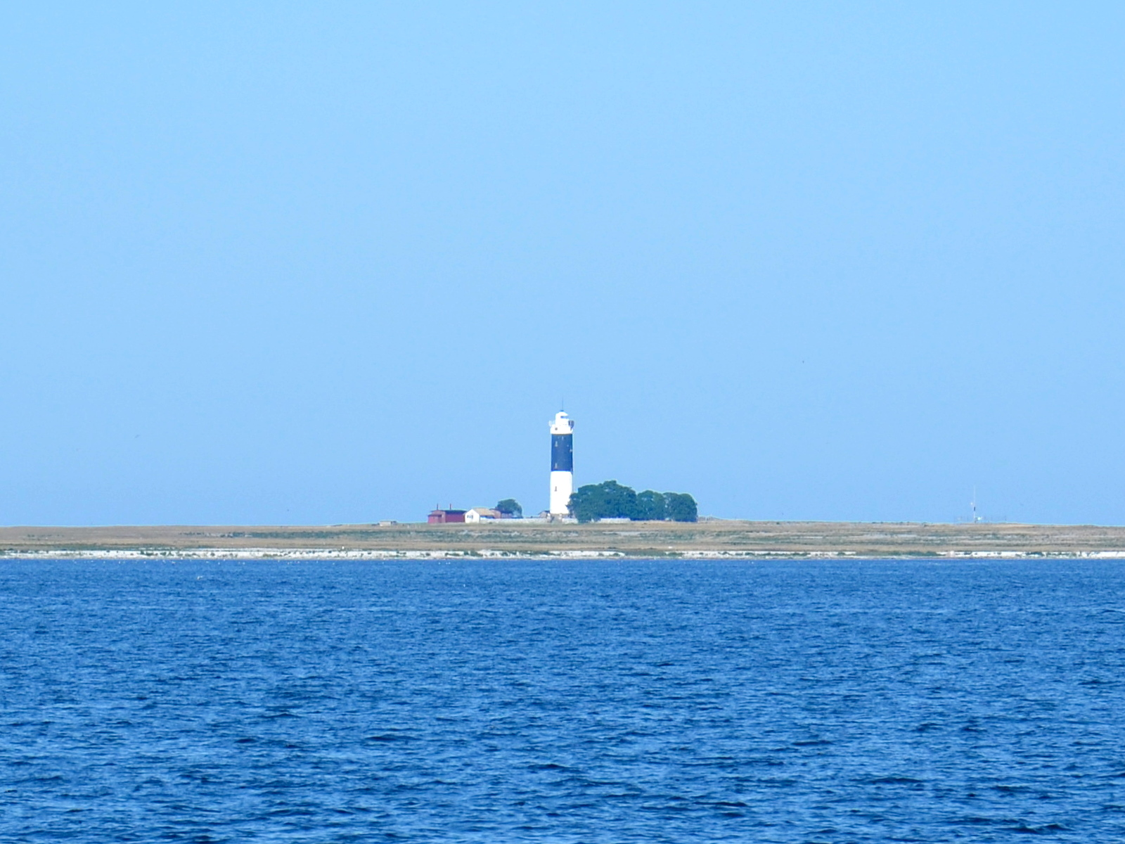 Östergarnsholm